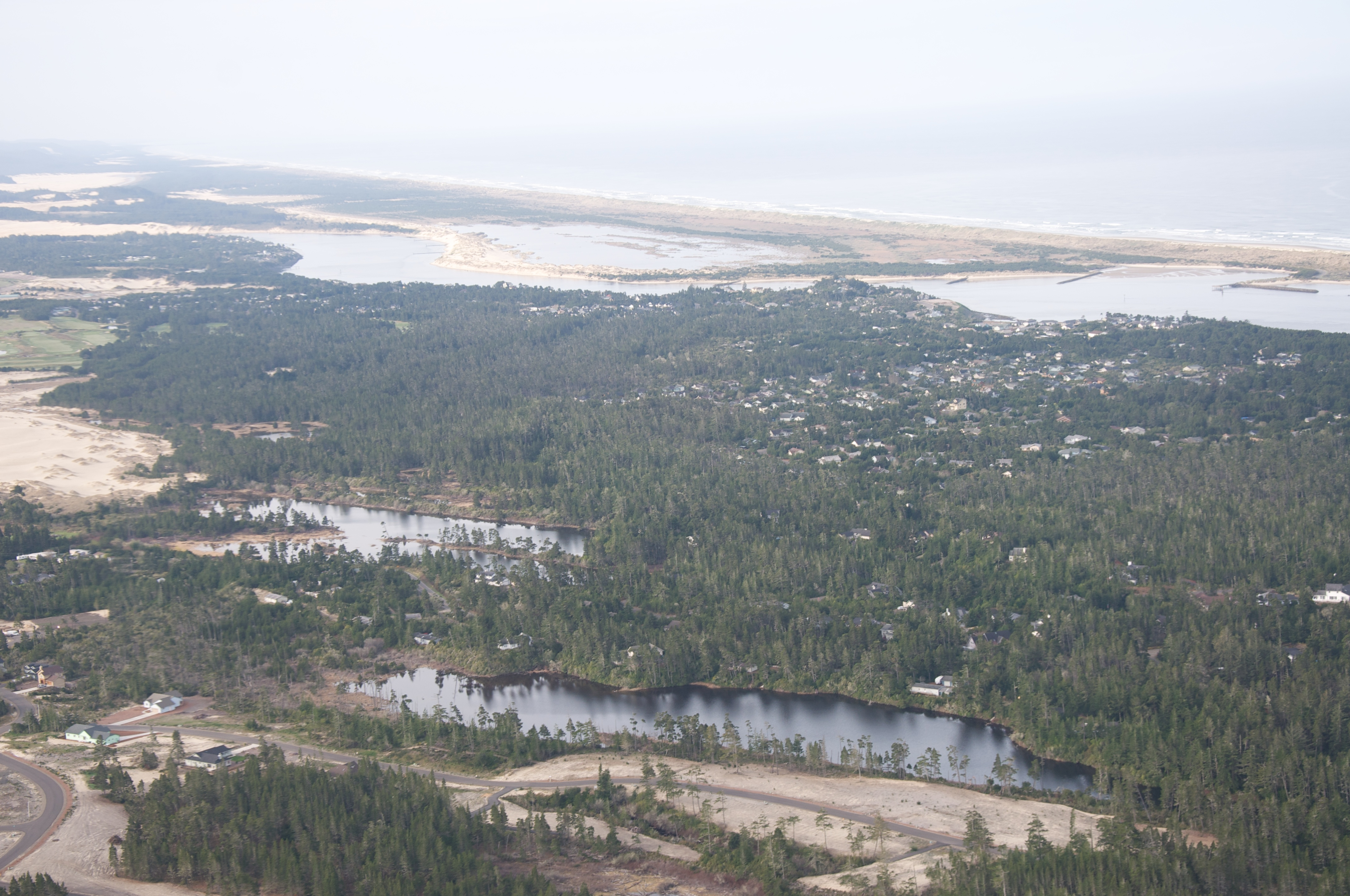 An aerial view of Heceta Beach, an unincorporated community along the coast in Lane County, Oregon